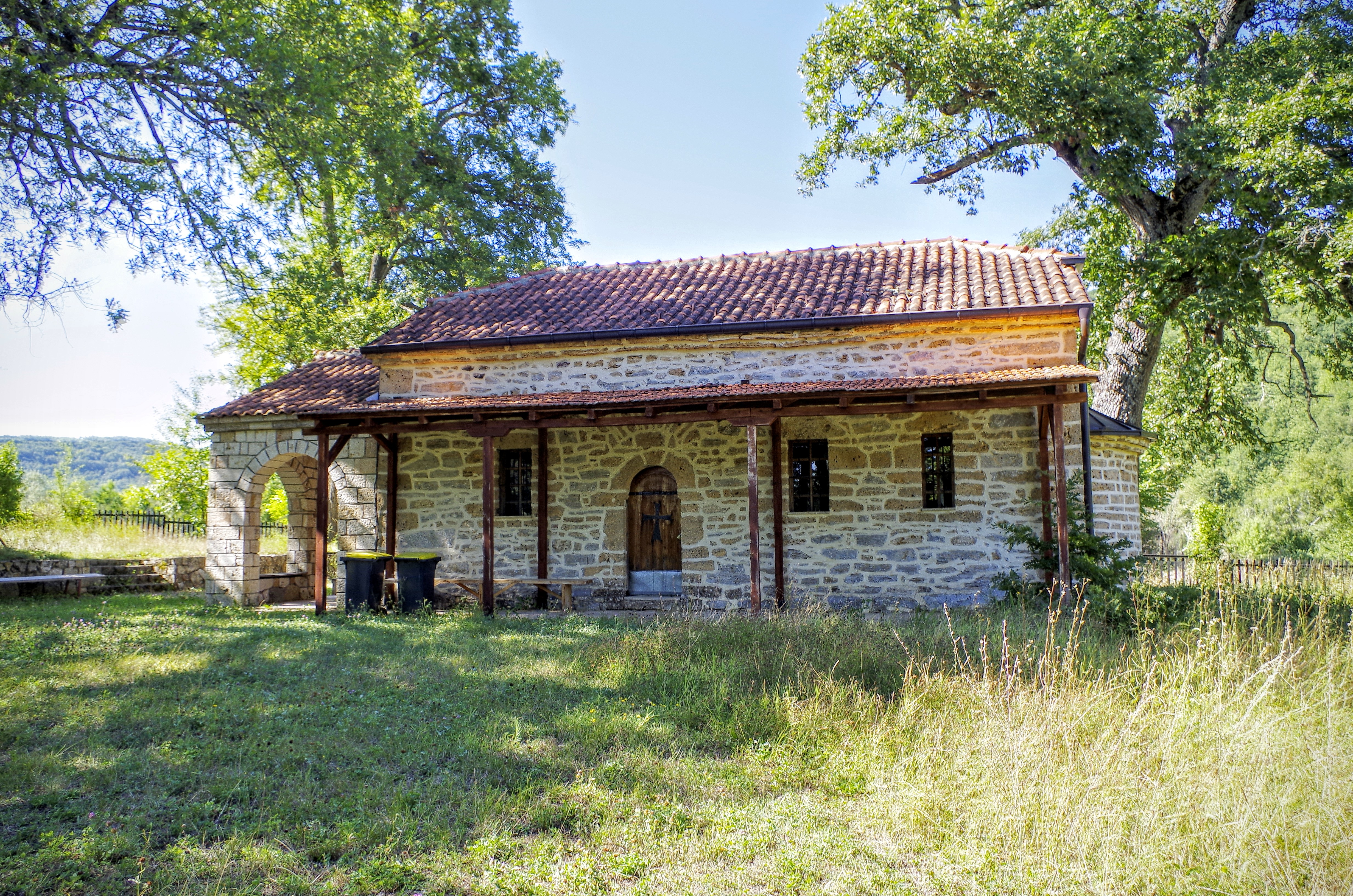 View of the St. John the Baptist Church in the village Slatino